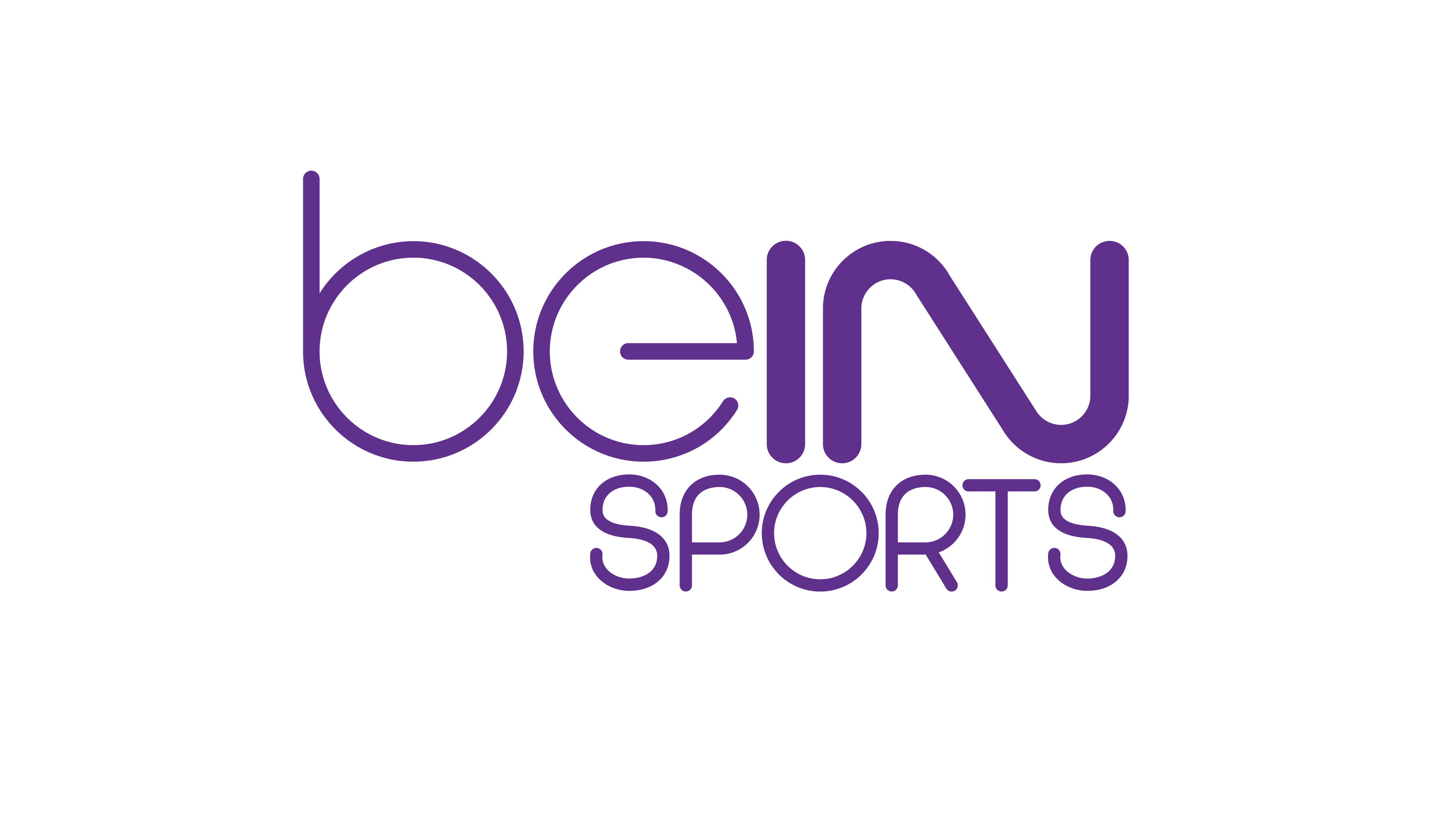 Official logo for beIN Sports : Sport Broadcasting television network based in Qatar